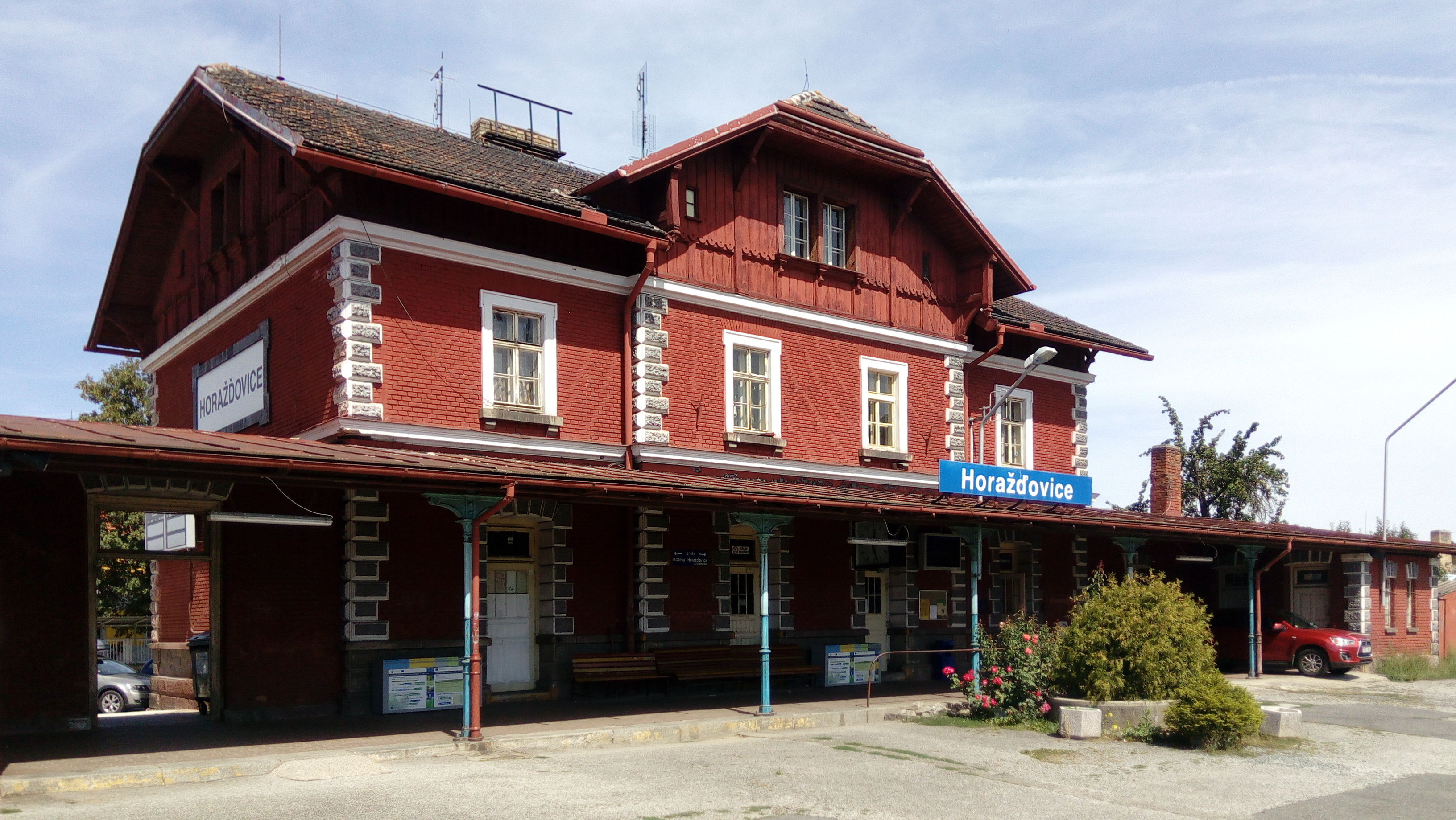 Train station in the town of Horažďovice, Klatovy District, Plzeň Region, Czechia.